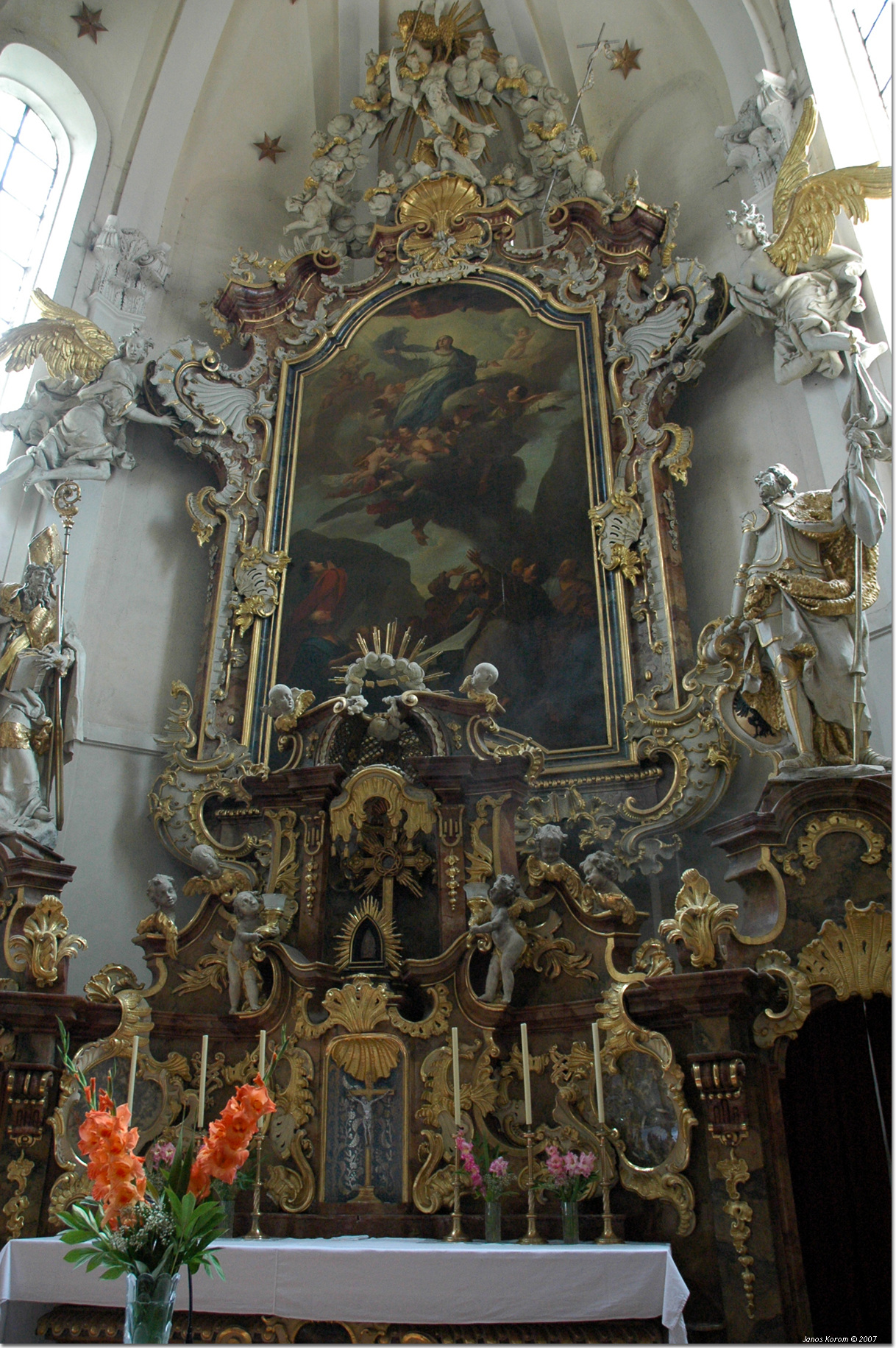 Altar in St. Prokop church, Sázava monastery, Czech Republic